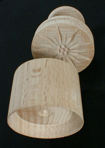 Bottom view of Wooden Corzetti Stamp.